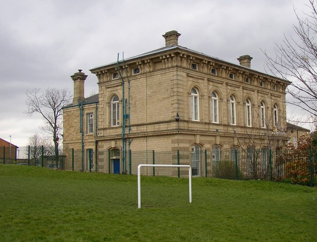 The County Court, Eightlands, Dewsbury The court was established in 1846, but this building is late 19C according to the English Heritage listing. It is notable for the large eaves brackets and roof overhang. There were formerly to houses on the site of the play area in the foreground.